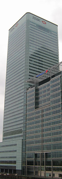 HSBC Building, Dockalnds, London. Taken by C Ford, March 04.